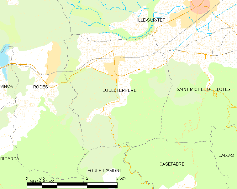 Map of French municipality